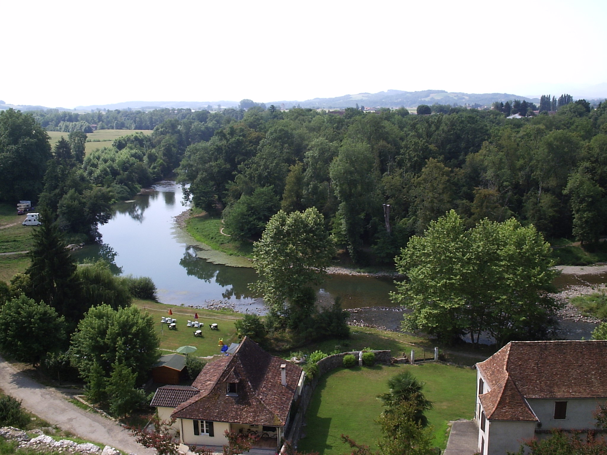 Author:Sebb Date:07/2006